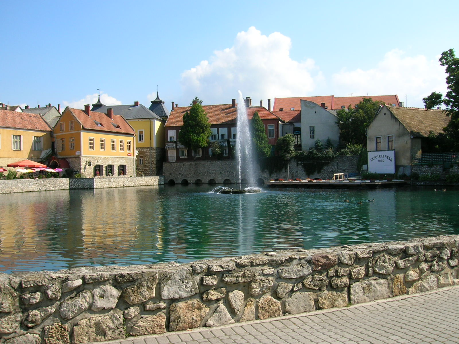 A lake in Tapolca, Veszprém county, Hungary.